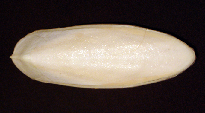 Cuttlebone found on a beach in Tunisia. It may be the cuttlebone of european common cuttlefish (Sepia officinalis) because of its shape and distribution. (identified by User:Kingfiser)